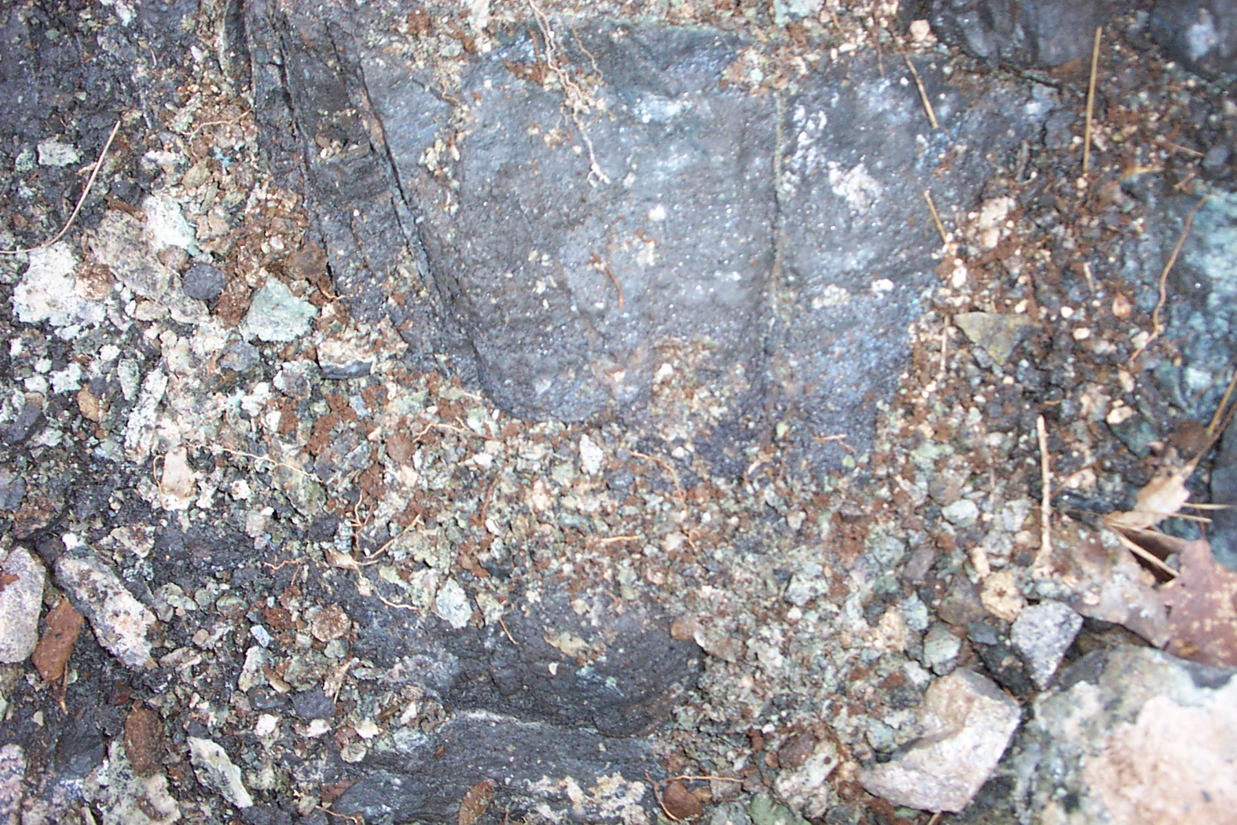 Trup Kromi në Fushë Dukagjin